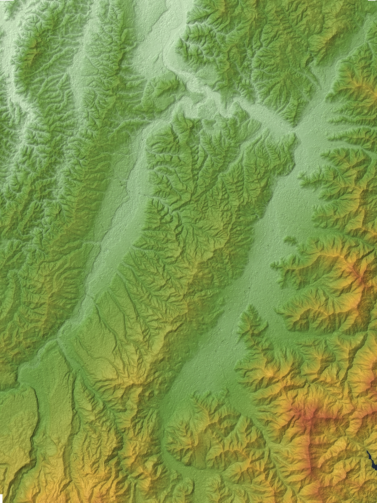 Tokamachi Basin (left) & Muikamachi Basin (right) (aka. Uonuma Basin) in Niigata Prefecture, Honshu, Japan.